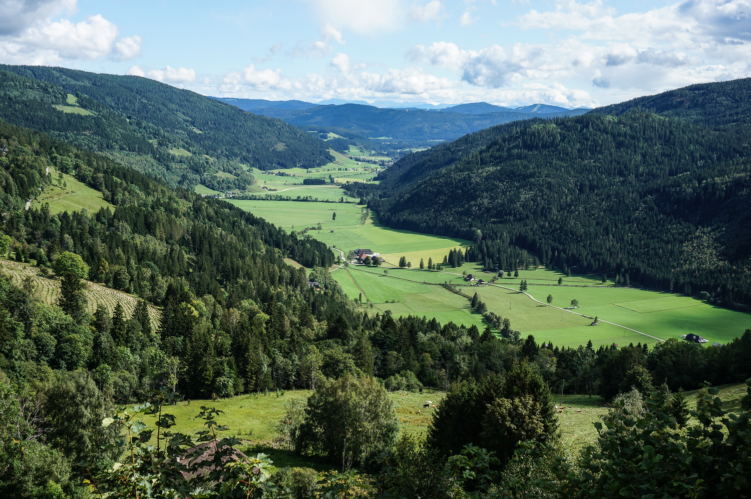 Panoramic view Gurktal, Carinthia, Austria, European Union